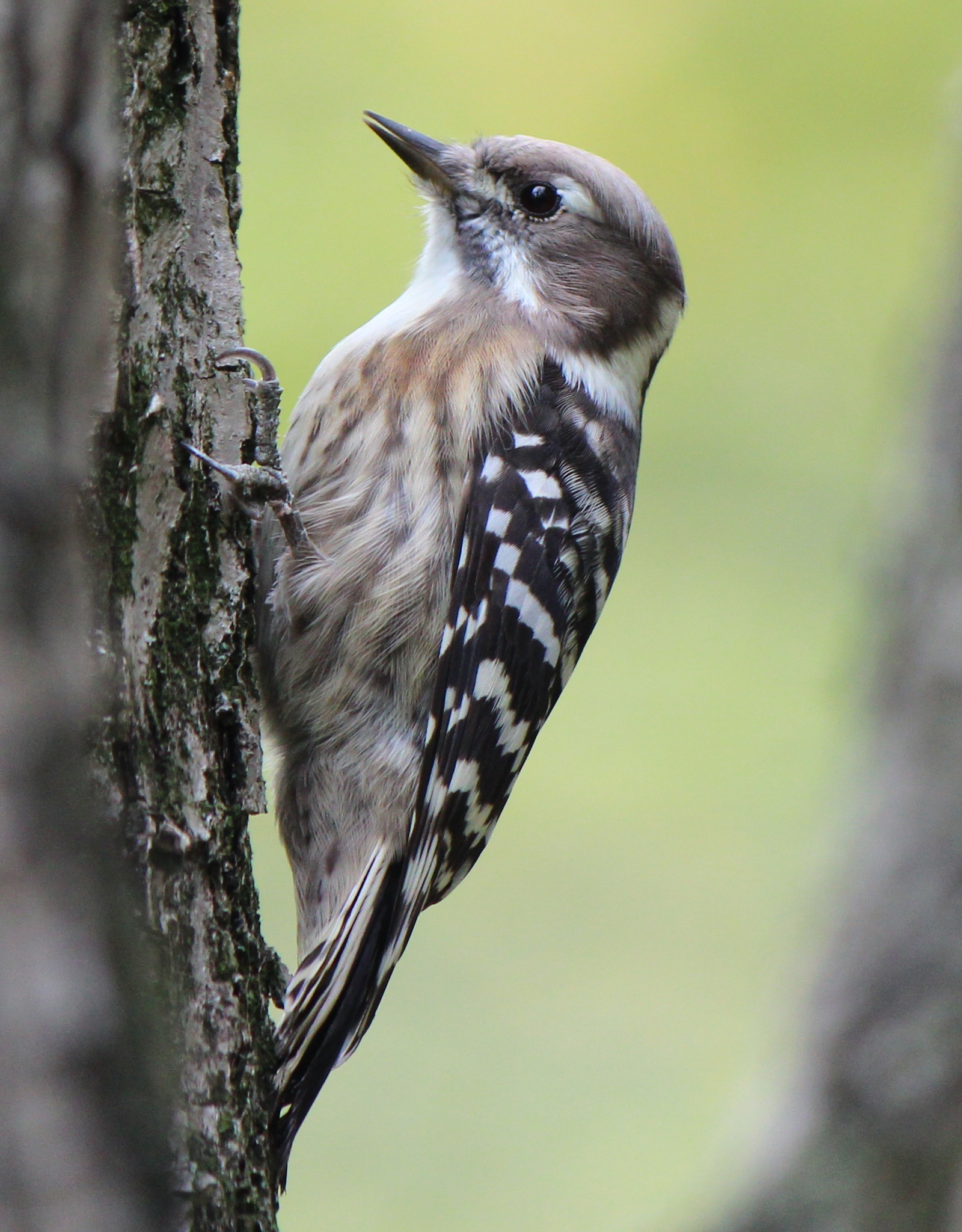 Dendrocopos kizuki(Japanese Pygmy Woodpecker), on tree in Japan.